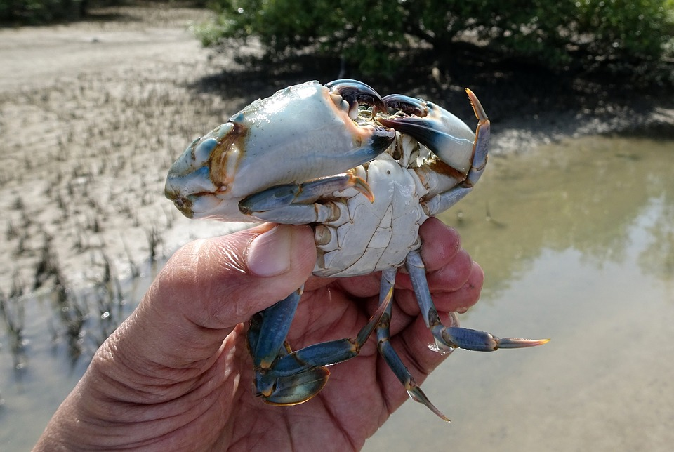 male mud crabs or scylla serrata